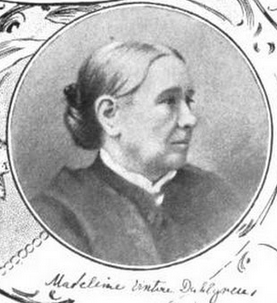 Madeleine Vinton Dahlgren